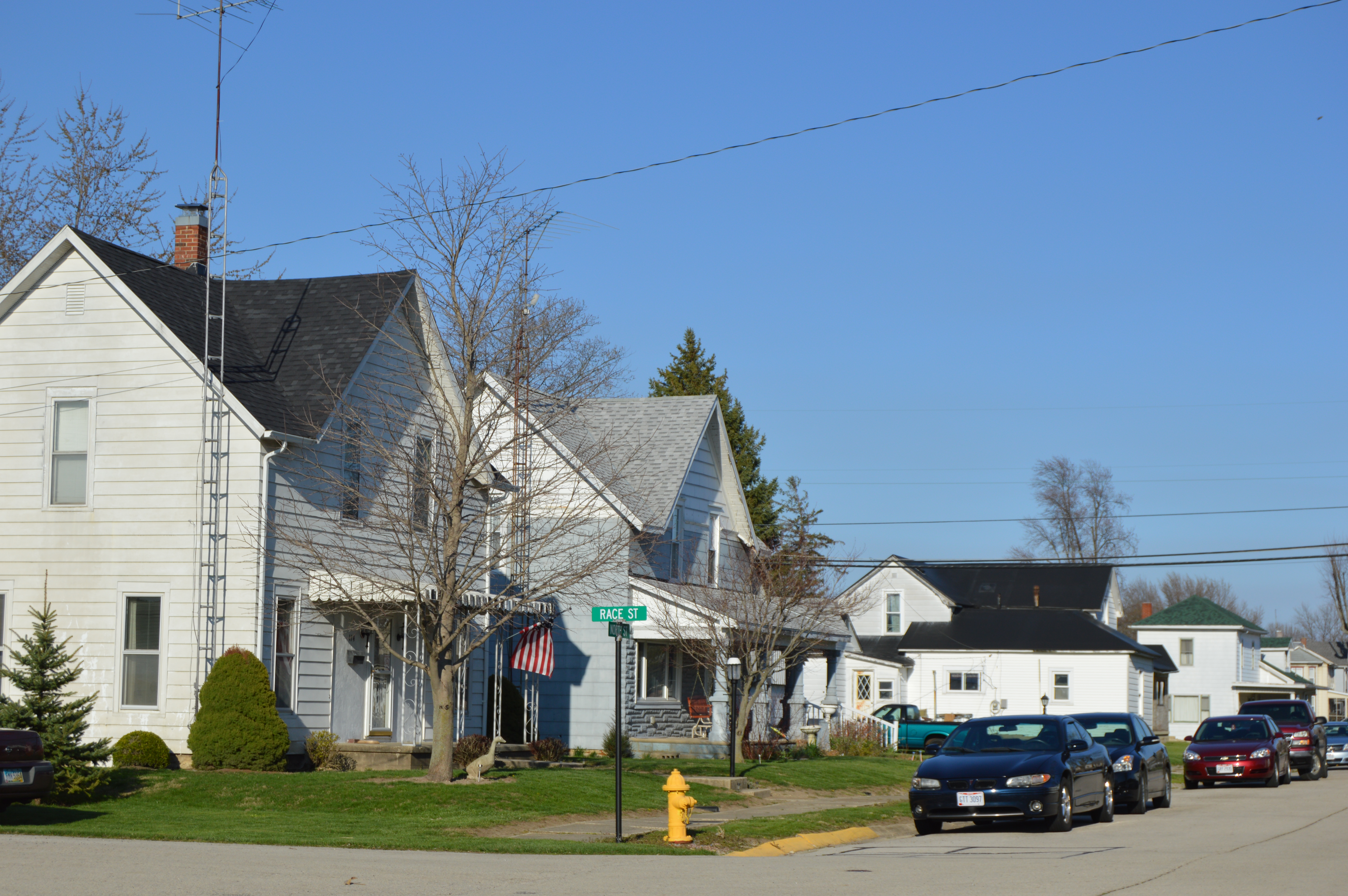 Houses on the northern side of North Street, east of the Race Street intersection, in West Manchester, Ohio, United States.